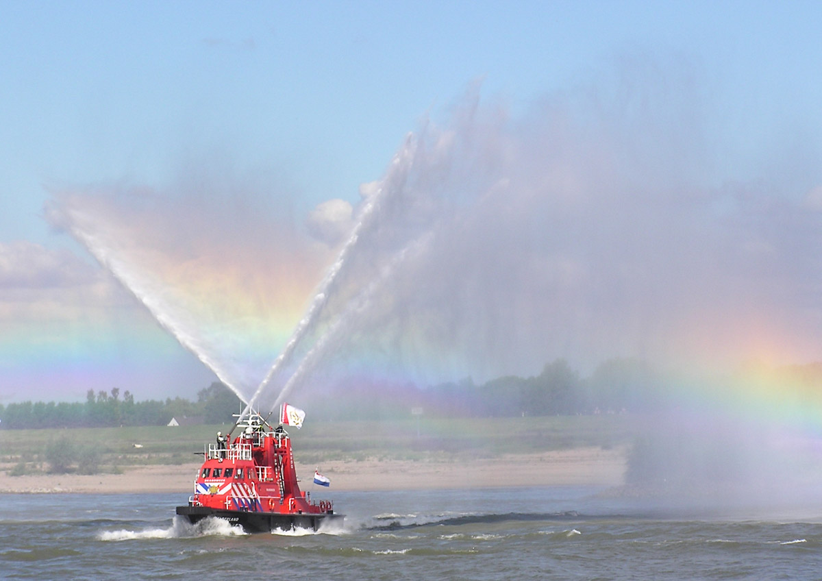 A fireboat in Nijmegen, Holland. Original caption: "Fireboat Taken at the "Haven en Transportdagen" Nijmegen-Holland. It's a boat from the firedepartment. You can make nice rainbows with it!"